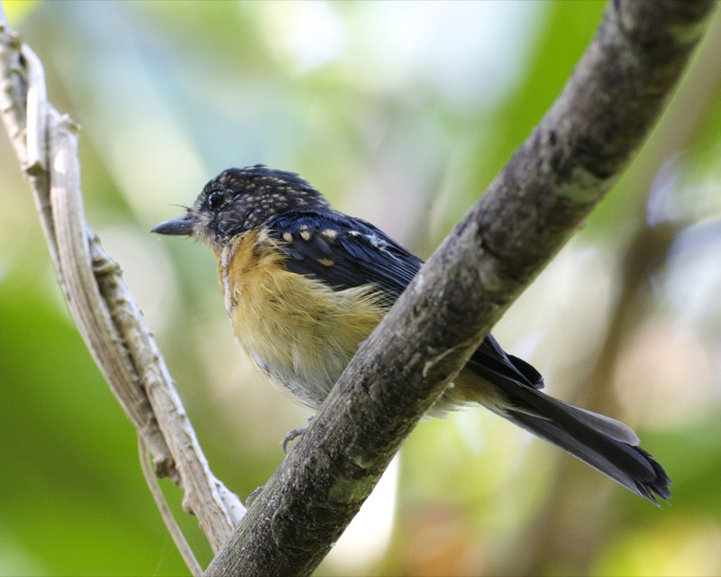 Mangrove Blue Flycatcher Cyornis rufigastra rhizophorae - juvenile. Date: 25th. September 2011 Location: Rakata, Kratatau, Indonesia Difficult to determine from Clements if this more likely the nominate race Cyornis rufigastra rufigastra or Cyornis rufigastra rhizophorae. After the 1883 eruption Kratatau was repopulated with birds from Sumatra mainly as it is nearer the northern island. Java is at least 45 m from Rakata (the remnant of the original Krakatau pre 1883). Sebesi Island is 20km to the north of Rakata. The Sumatran Island is another 20 km north of Sebesi. Sebesi is mentioned as populated by the race rhizophorae. This makes it the logical choice.